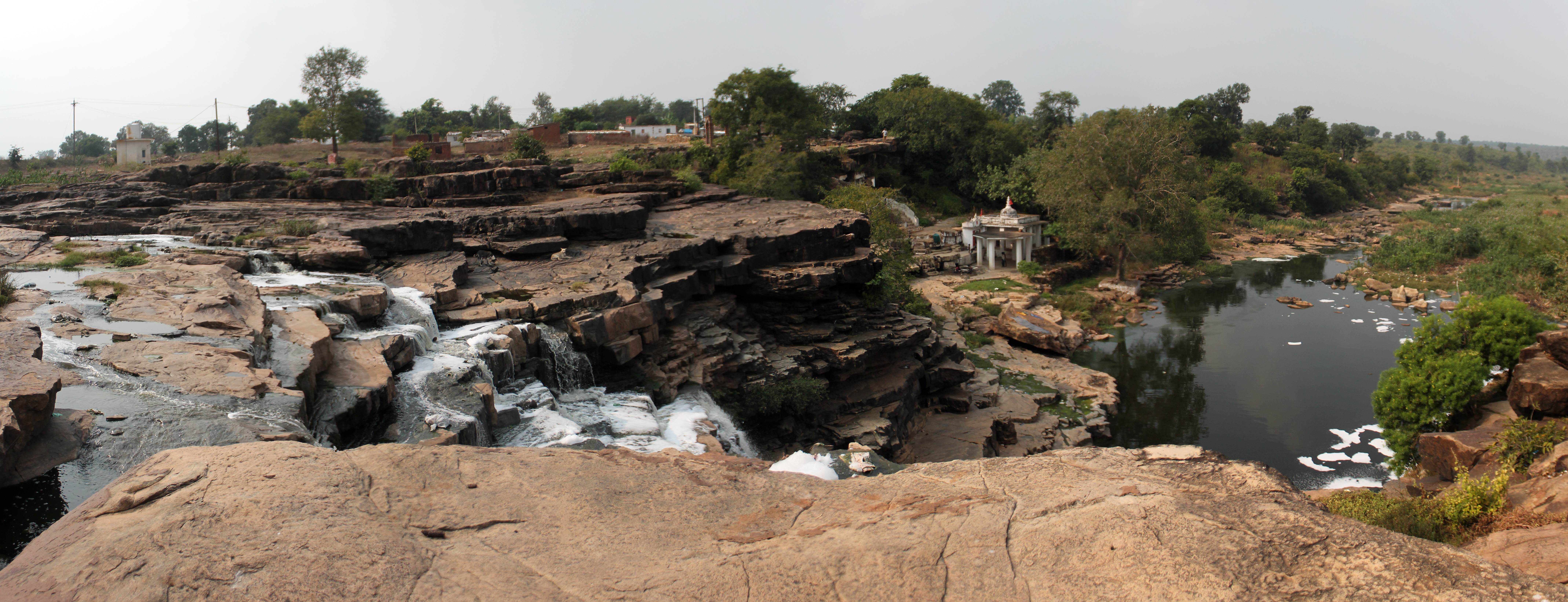 Panoramic view of waterfall on Panna Bypass